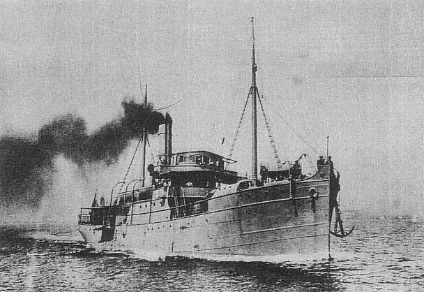 Manchukuo Coast Guard Ship "Hai-Wang"